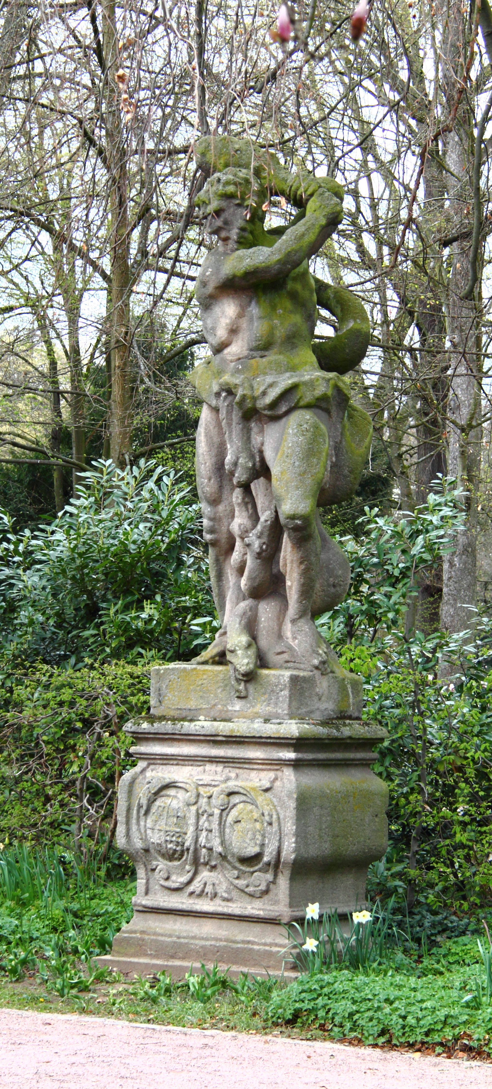 "Magnolia Grove", part of Schöntal Park in Aschaffenburg, Bavaria, Germany